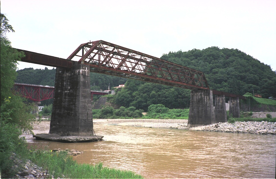 kisogawakyouryou_kitaenatetudou